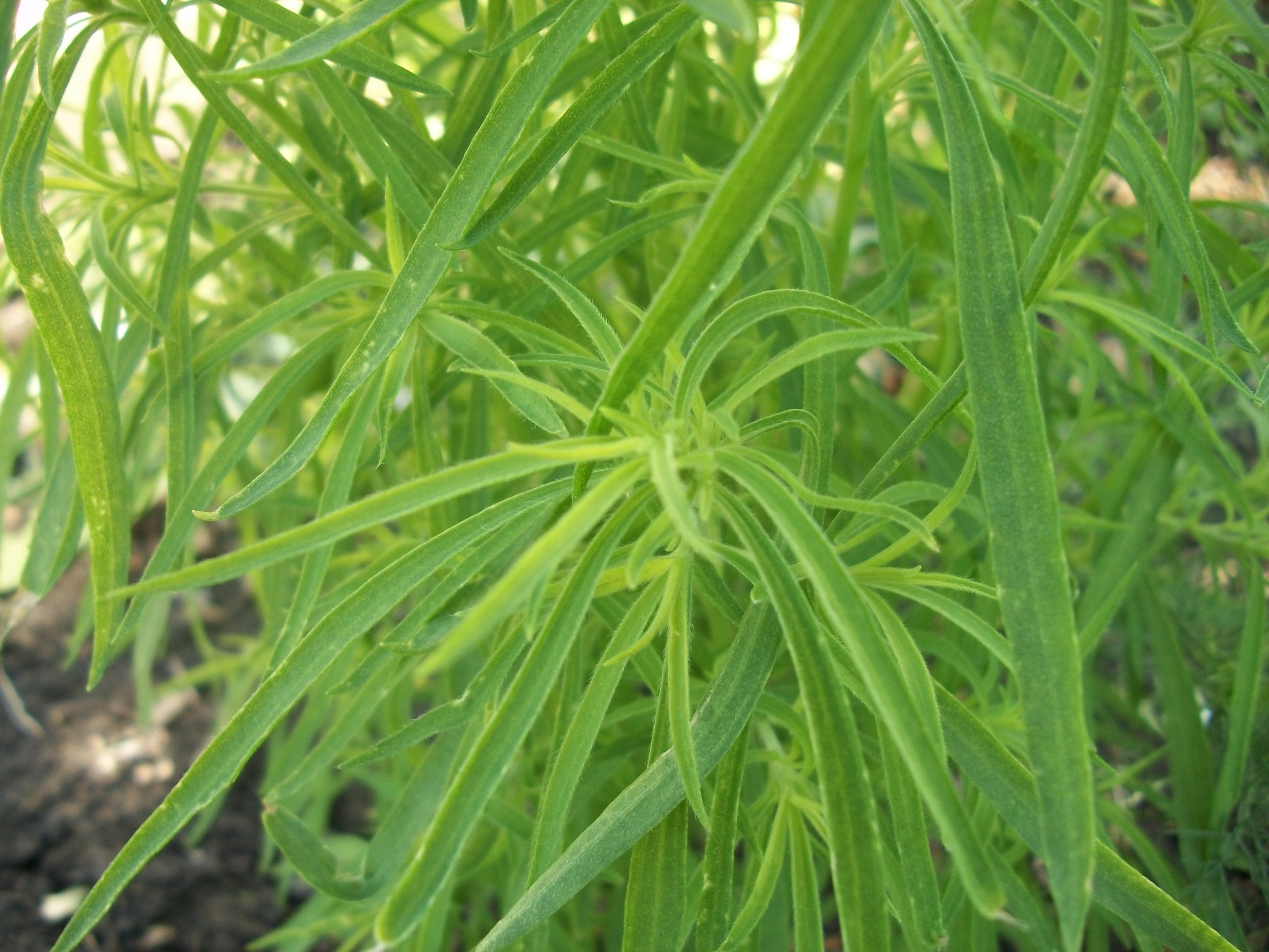 Bassia scoparia (Syn. Kochia scoparia L.